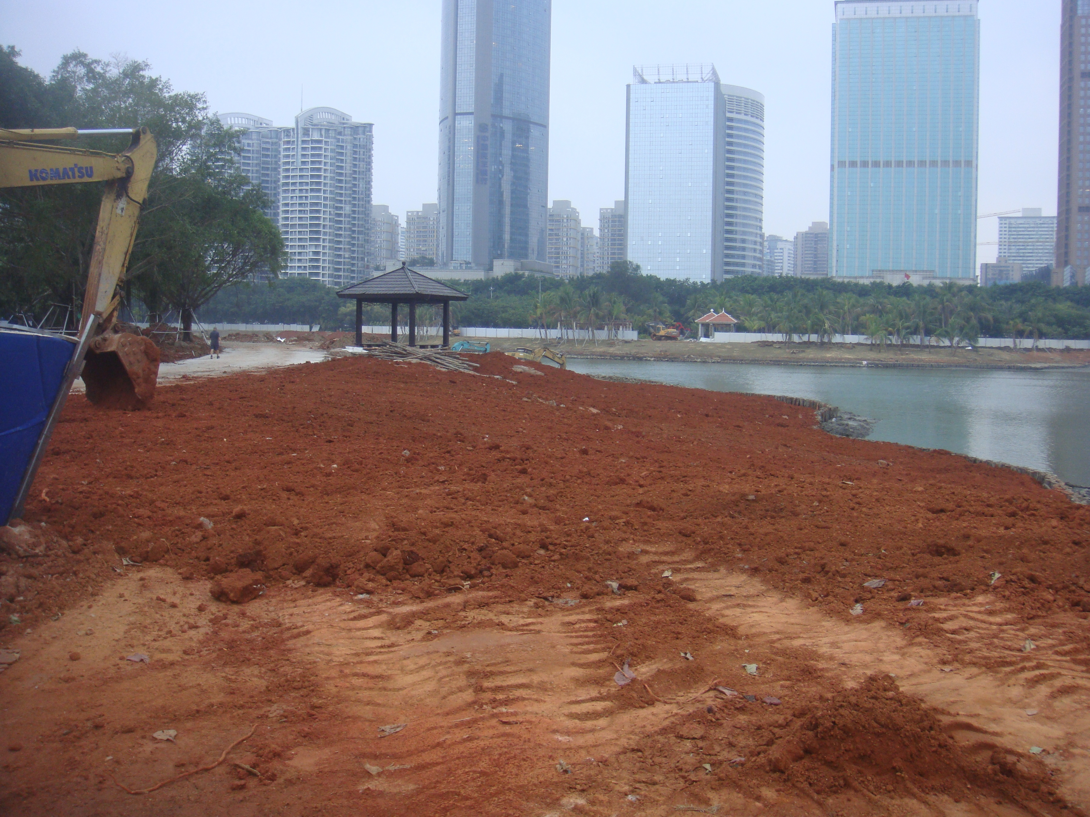 Evergreen Park in 2017 10 during renovation, Haikou, Hainan, China